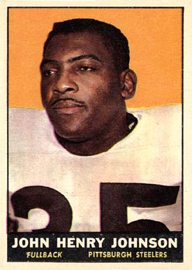 National Football League player John Henry Johnson on a 1961 Topps football trading card with the Pittsburgh Steelers